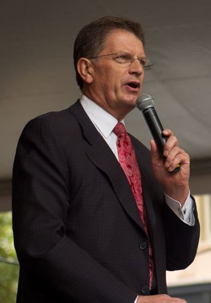 Chinese New Year 2013 85 - Ted Baillieu